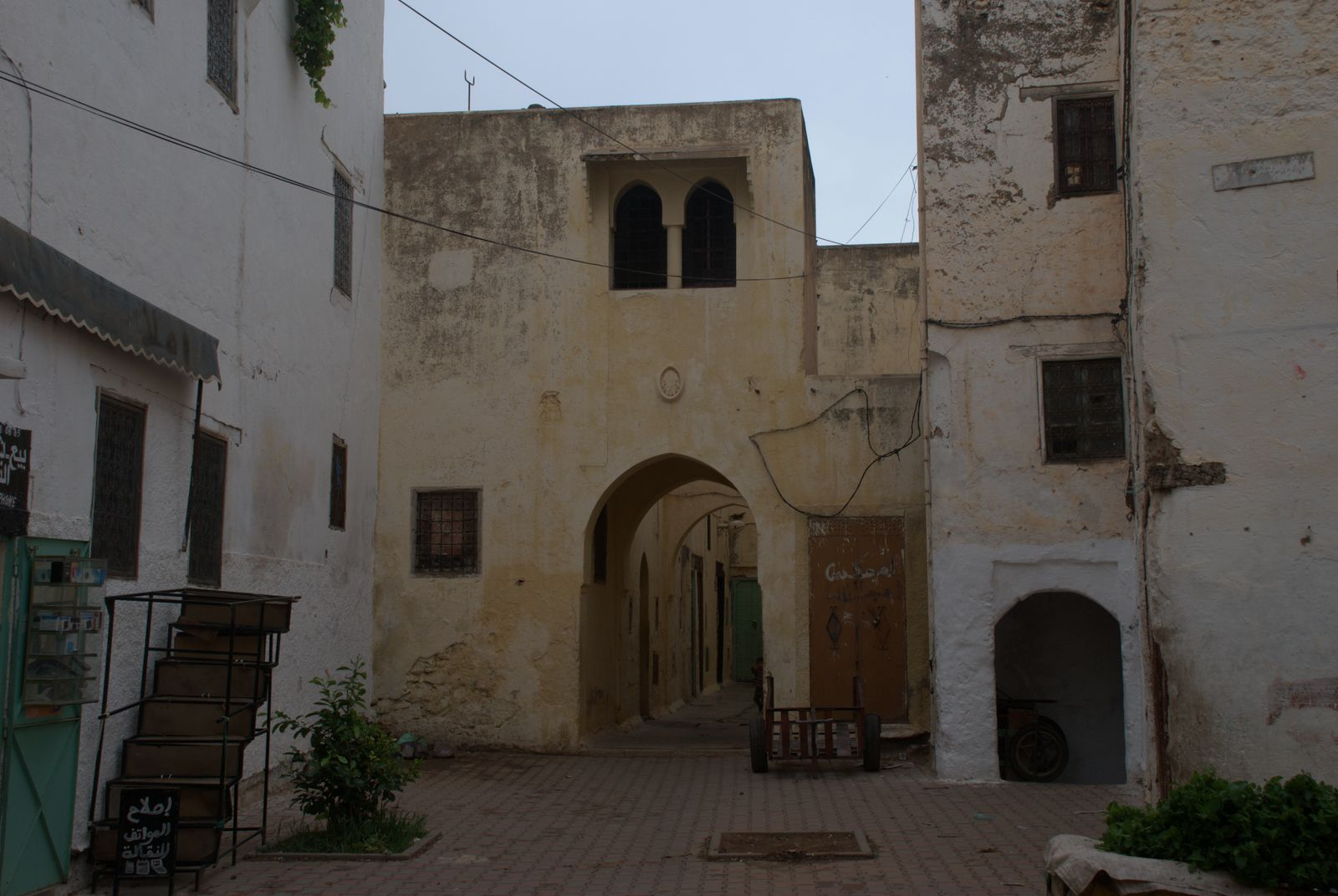 Sefrou, Morocco, old town